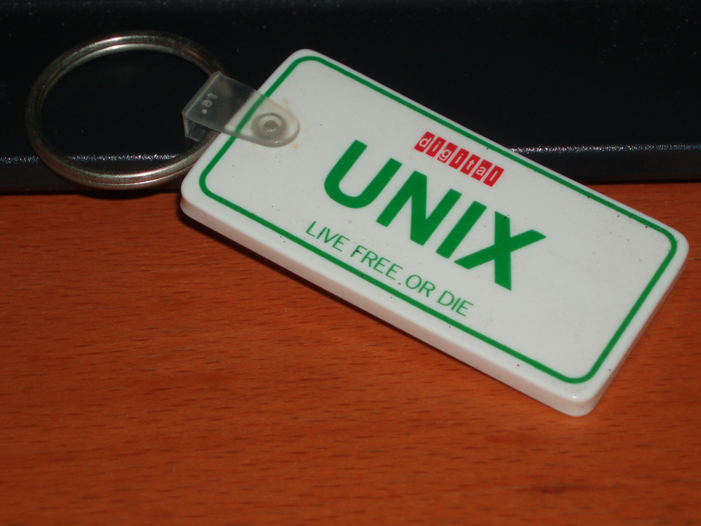 Digital UNIX keychain The other side says, "CALIFORNIA - Y W8 4 HP - The Migration State".